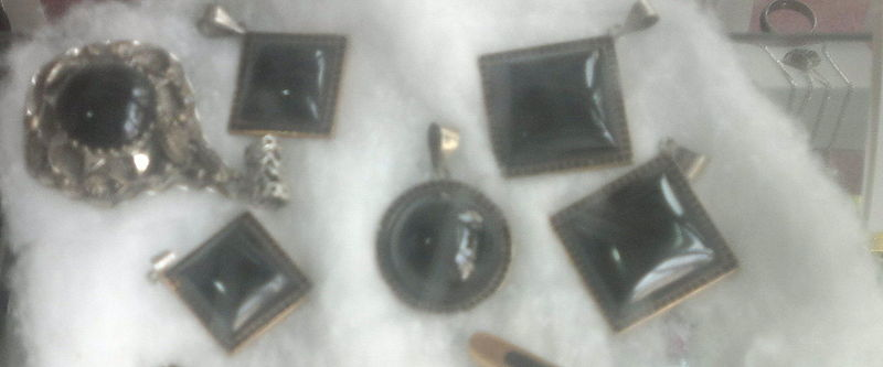 Some necklaces made of Oltu stone (Turkish: Oltu taşı), aka black amber, is a kind of jet found in the region around Oltu town within Erzurum Province, eastern Turkey. The organic substance is used as semi-precious gem stone in manufacturing jewellery.